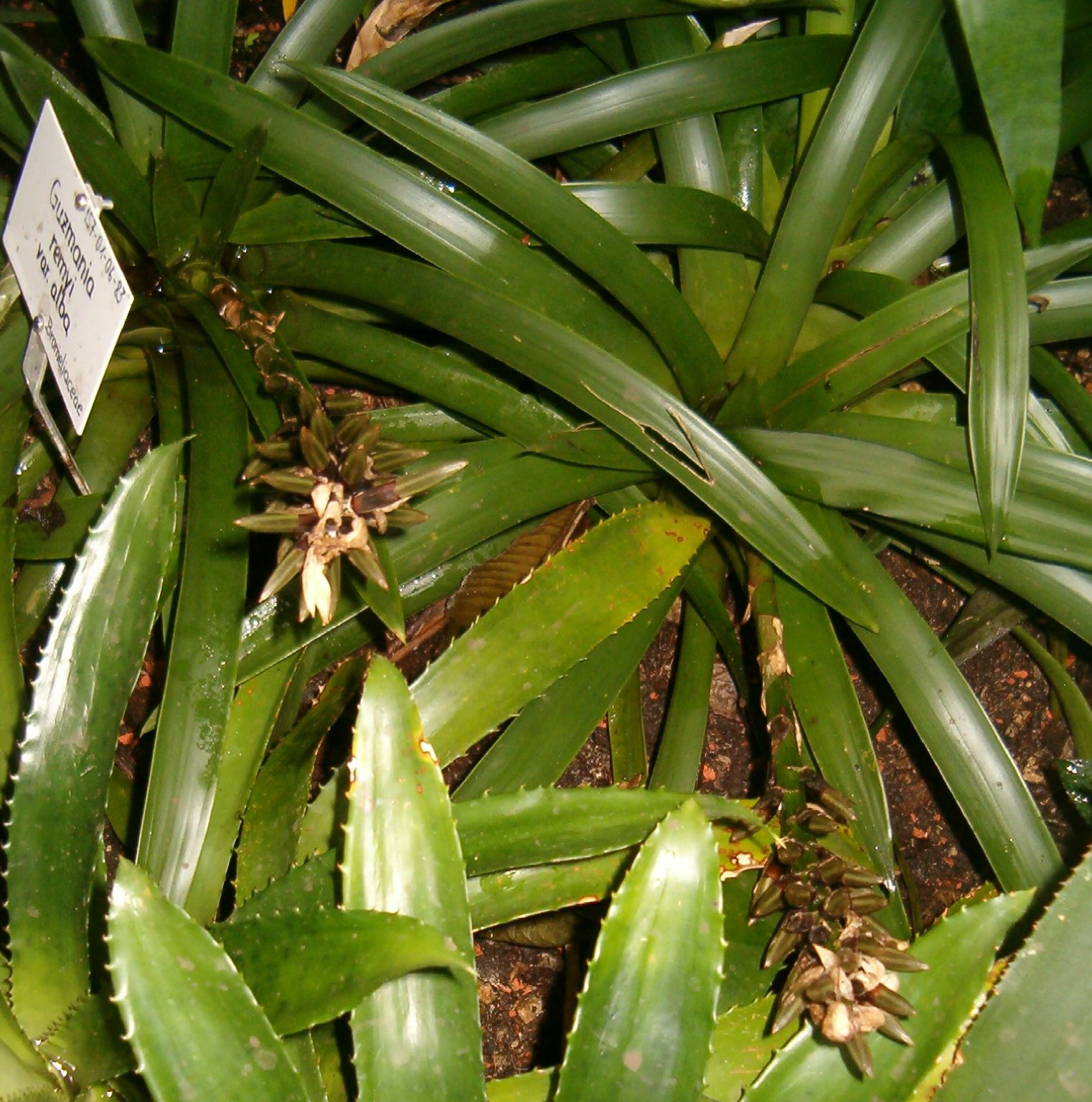 Location: Botanical Gardens Berlin Dahlem Habitus and Inflorescence